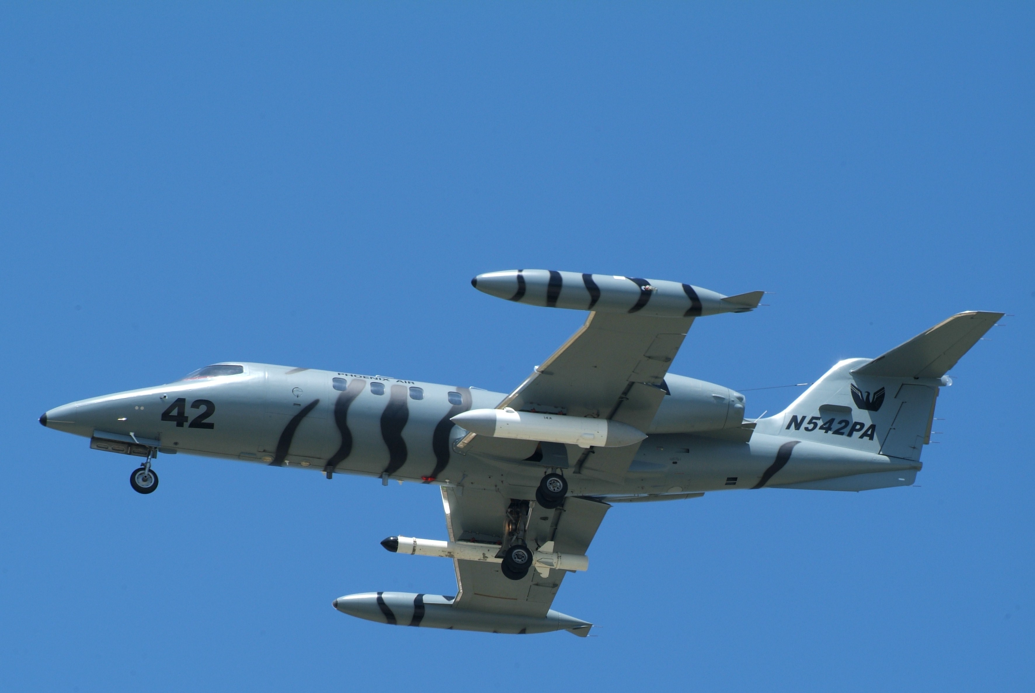 Target tower and/or target simulator